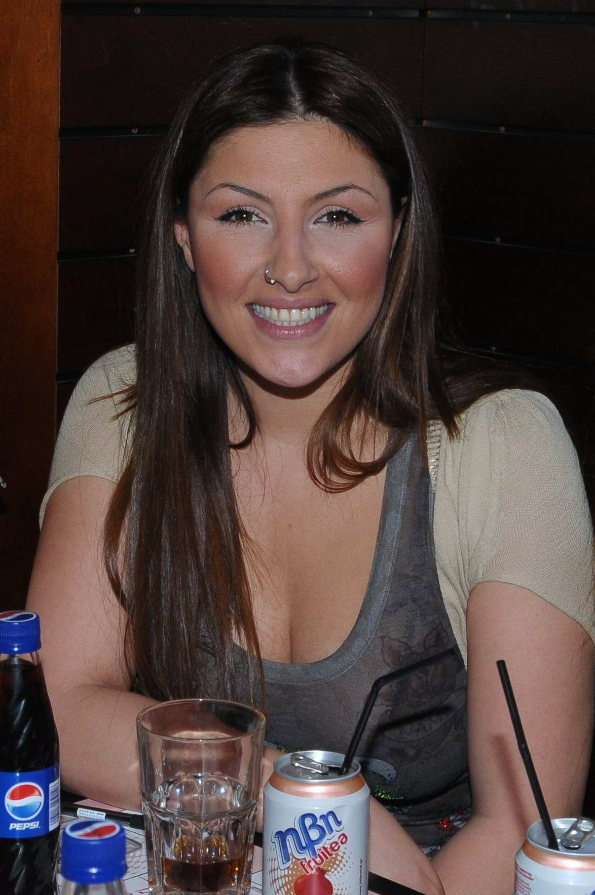 Greek singer Elena Paparizou at the launch of Ivi Fruitea at the Hard Rock Cafe on 29 April 2010.